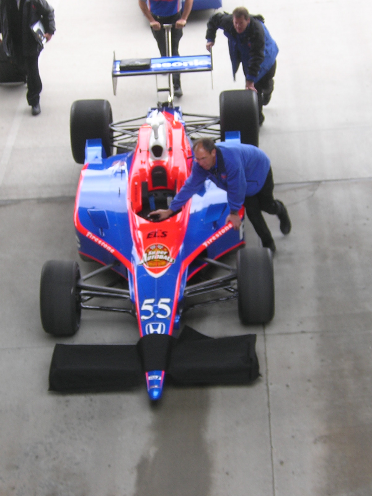 Fernandez Racing's 2006 #55 car driven by Kosuke Matsuura (not pictured).